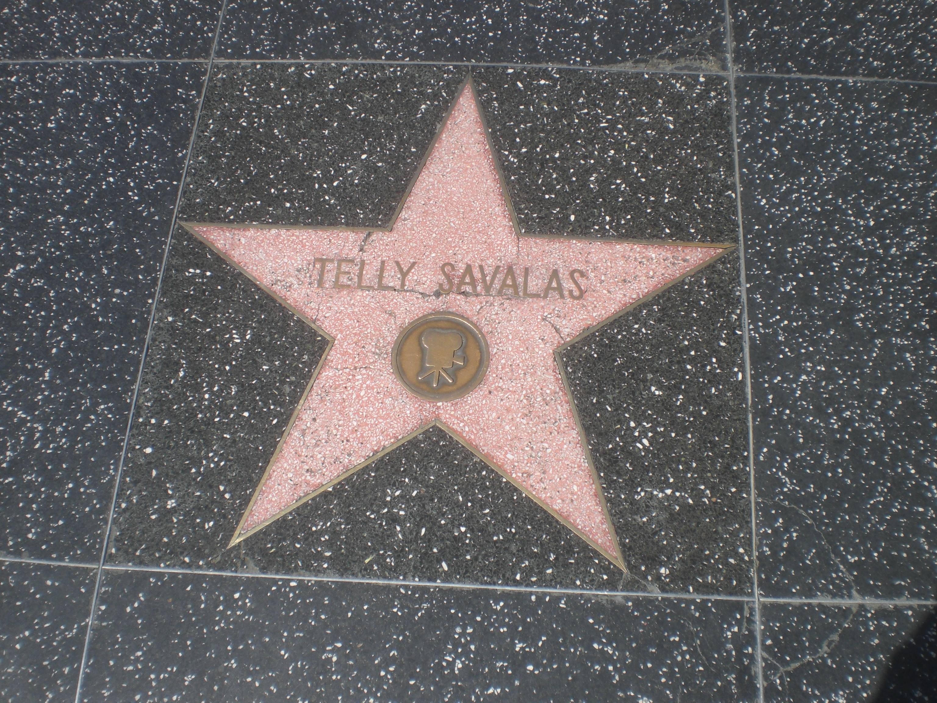 Telly Savalas' star on the Hollywood Walk of Fame